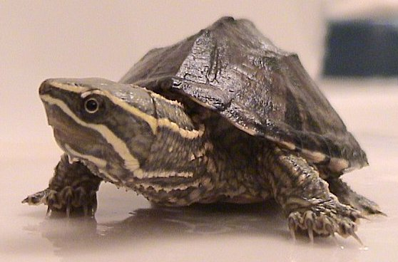 Sternotherus odoratus